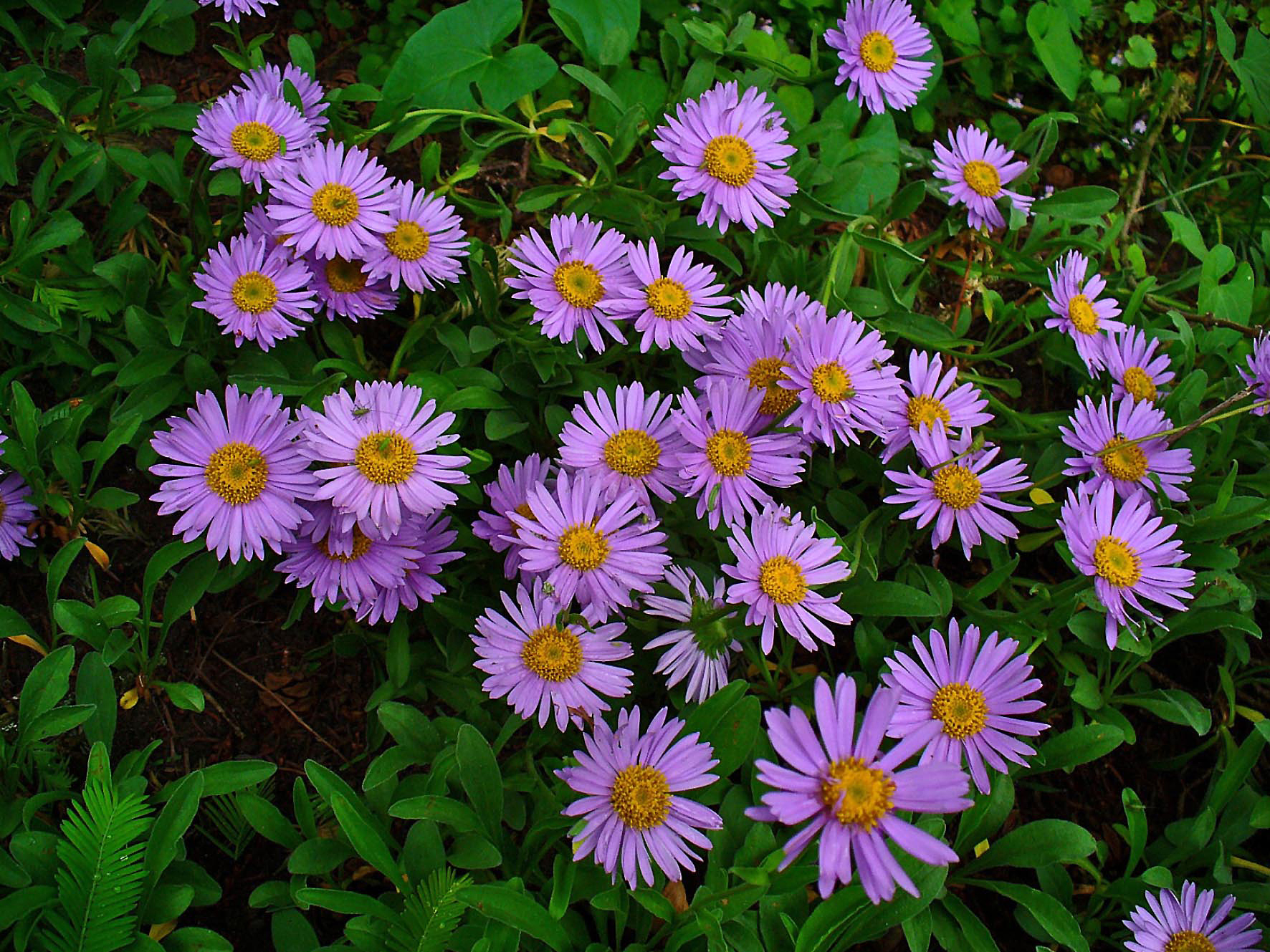 Aster alpinus, Asteraceae, Alpine Aster, habitus; Botanical Garden KIT, Karlsruhe, Germany.